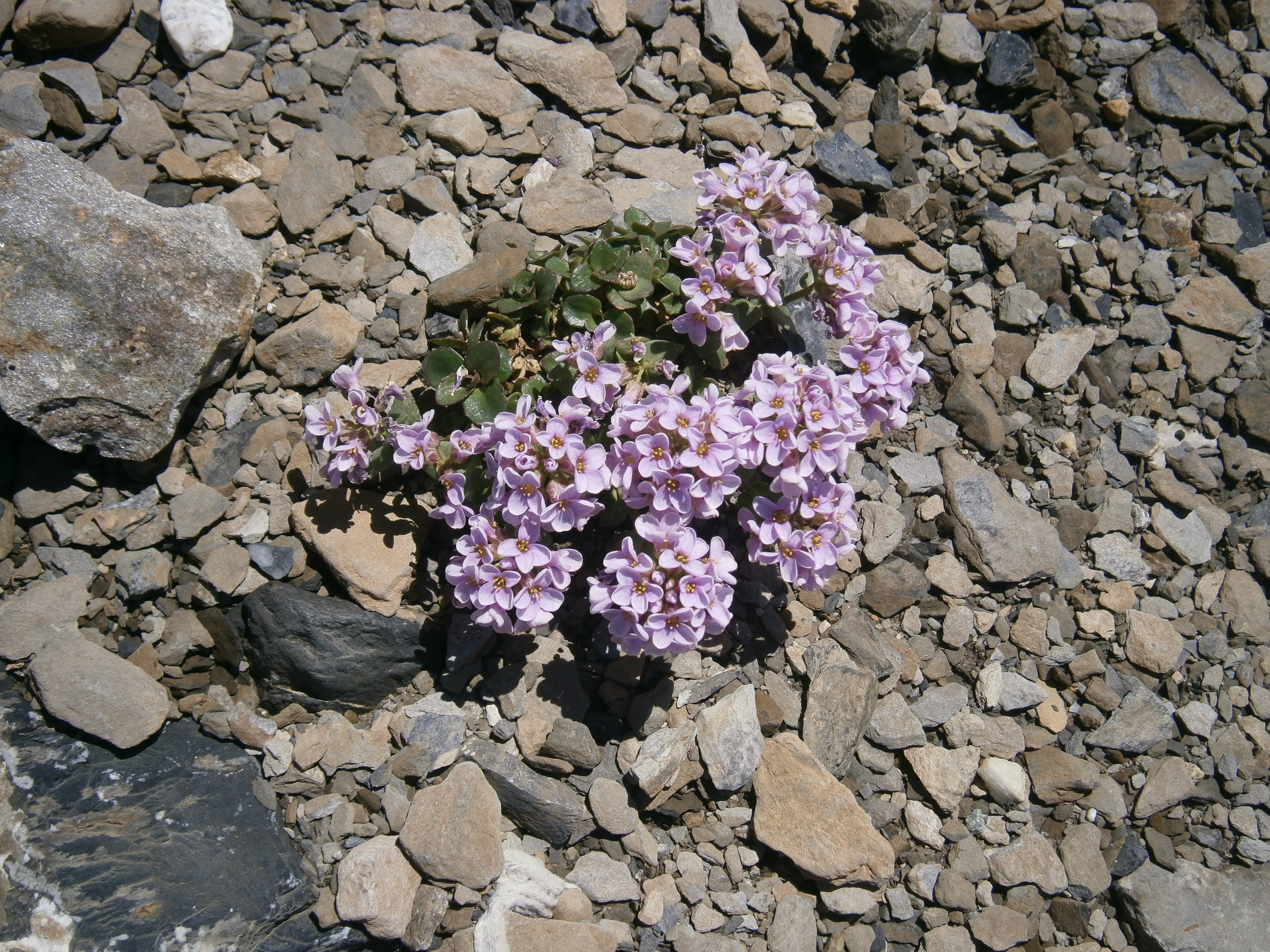 Noccaea rotundifolia